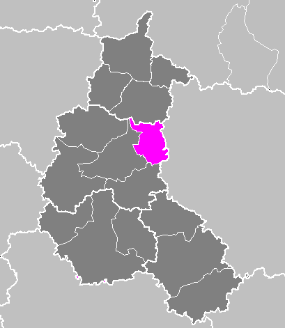 Maps of arrondissements and cantons of France: Arrondissement de Sainte-Menehould.PNG